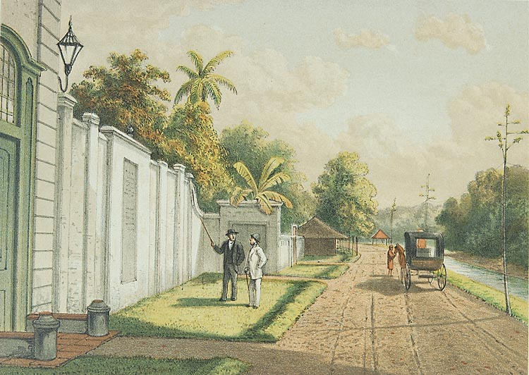 Titel: Ruïne van de woning van Pieter Eberveld op de weg naar Batavia Maker: schilder: Jhr. Josias Cornelis Rappard in deze collectie - in alle collecties Trefwoord: ruïne in deze collectie - in alle collecties Europees in deze collectie - in alle collecties grafiek in deze collectie - in alle collecties Jakarta (locatie) in deze collectie - in alle collecties Verv.jaar: 1888-1889 Techniek: papier in deze collectie - in alle collecties kleurenlitho in deze collectie - in alle collecties Object: litho in deze collectie - in alle collecties Bron: 3728-775 (litho, papier, kleurenlitho), Koloniale Wereldtentoonstellingen, Koninklijk Instituut voor de Tropen/Tropenmuseum Copyright: voor informatie: Koninklijk Instituut voor de Tropen/Tropenmuseum Opmerking: Uit: Collectie materiële cultuur Litho naar een oorspronkelijke aquarel van J. Rappard.